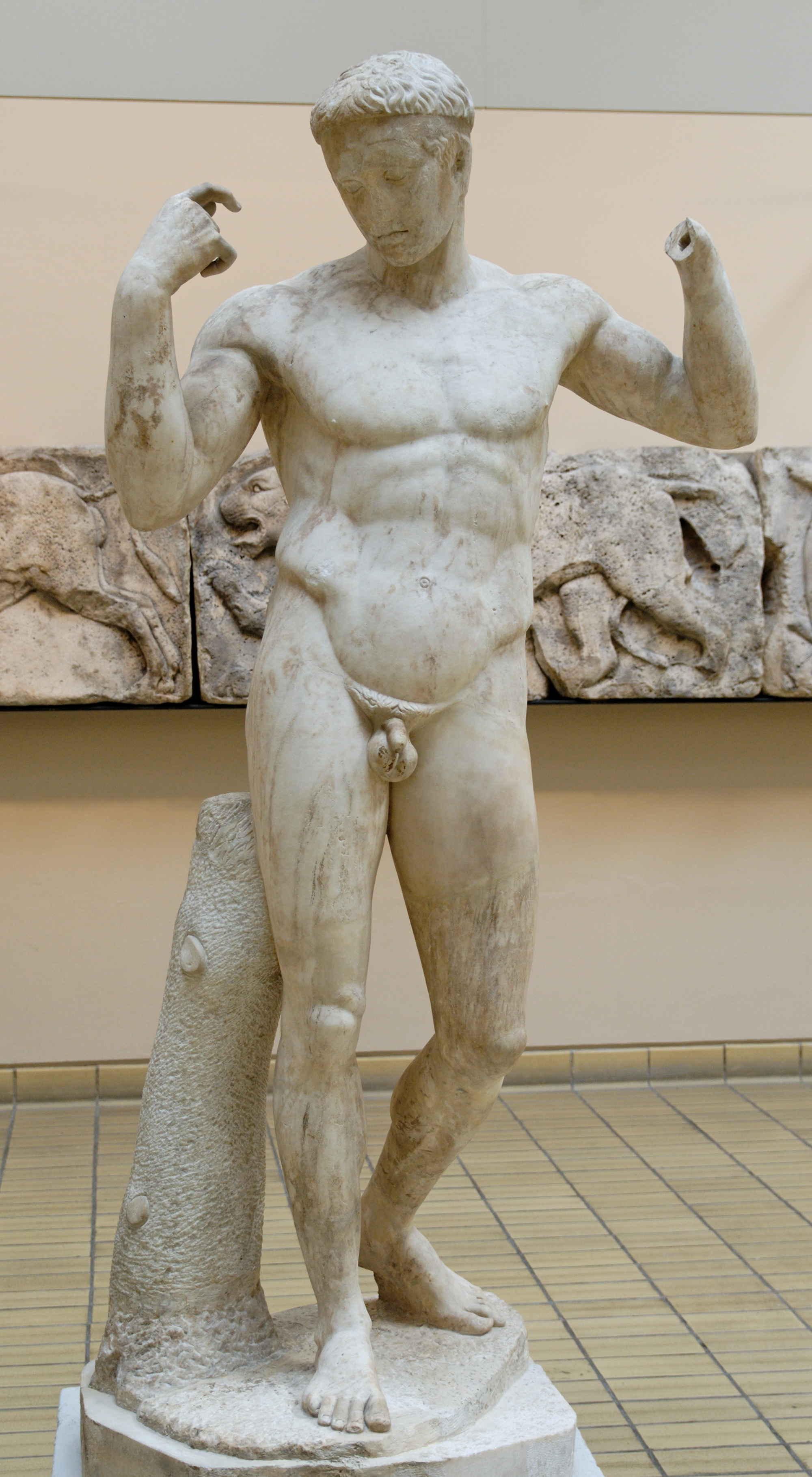 Diadumenos (athlete tying a ribbon band). Marble, Roman copy of ca. 50 AD after a Greek original of ca. 440 BC. From the Roman theatre at Vaison-la-Romaine, France.